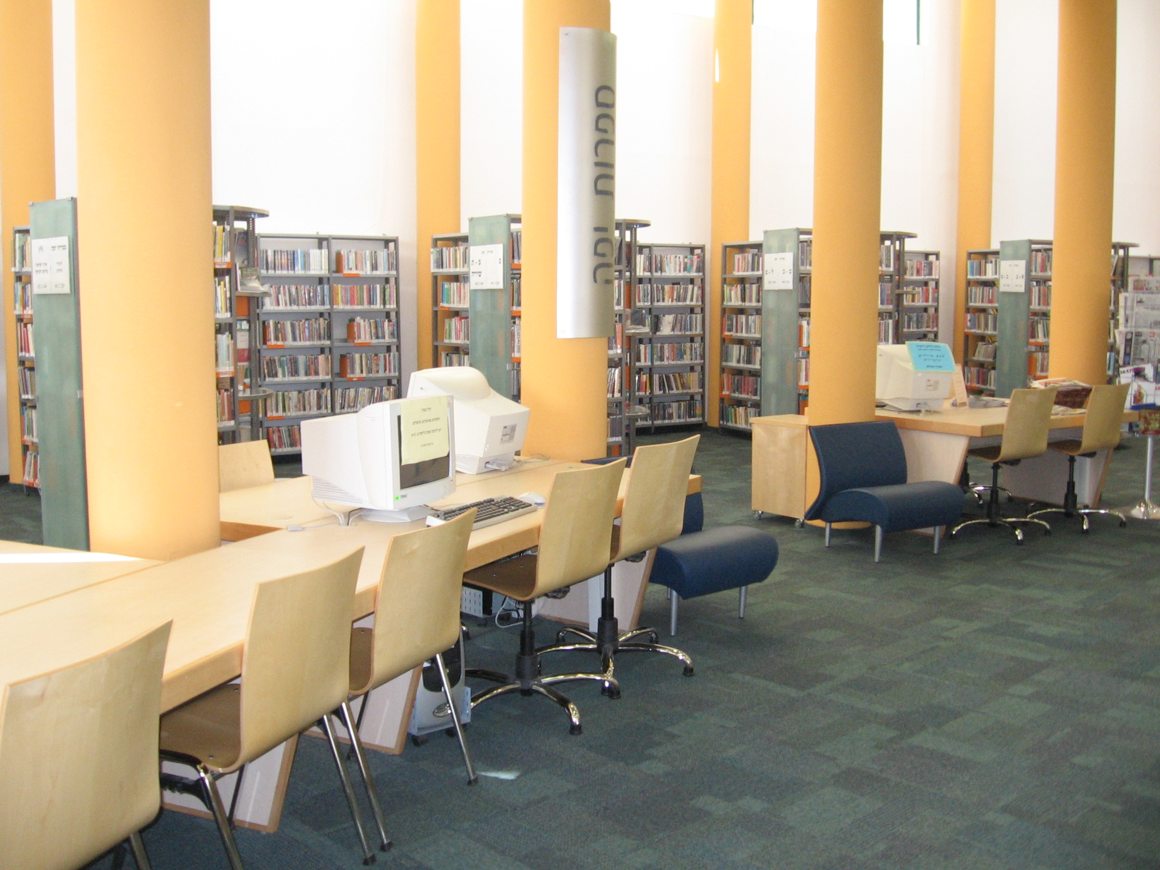 Inside the library, study area